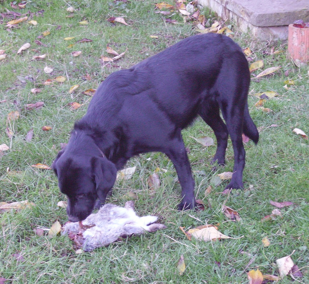 A dog eating a rabbit. The rabbit had been dead some time, killed the previous night by a lurcher (another breed of dog), been stowed in some vegetation and had developed rigor mortis. This dog was a very inexpert butcher and is seen here deliberately eating the rabbit's guts. It vomited these a few minutes later.